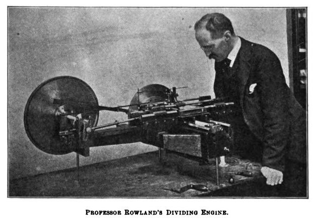 Henry Augustus Rowland (November 27, 1848 – April 16, 1901) and his dividing engine